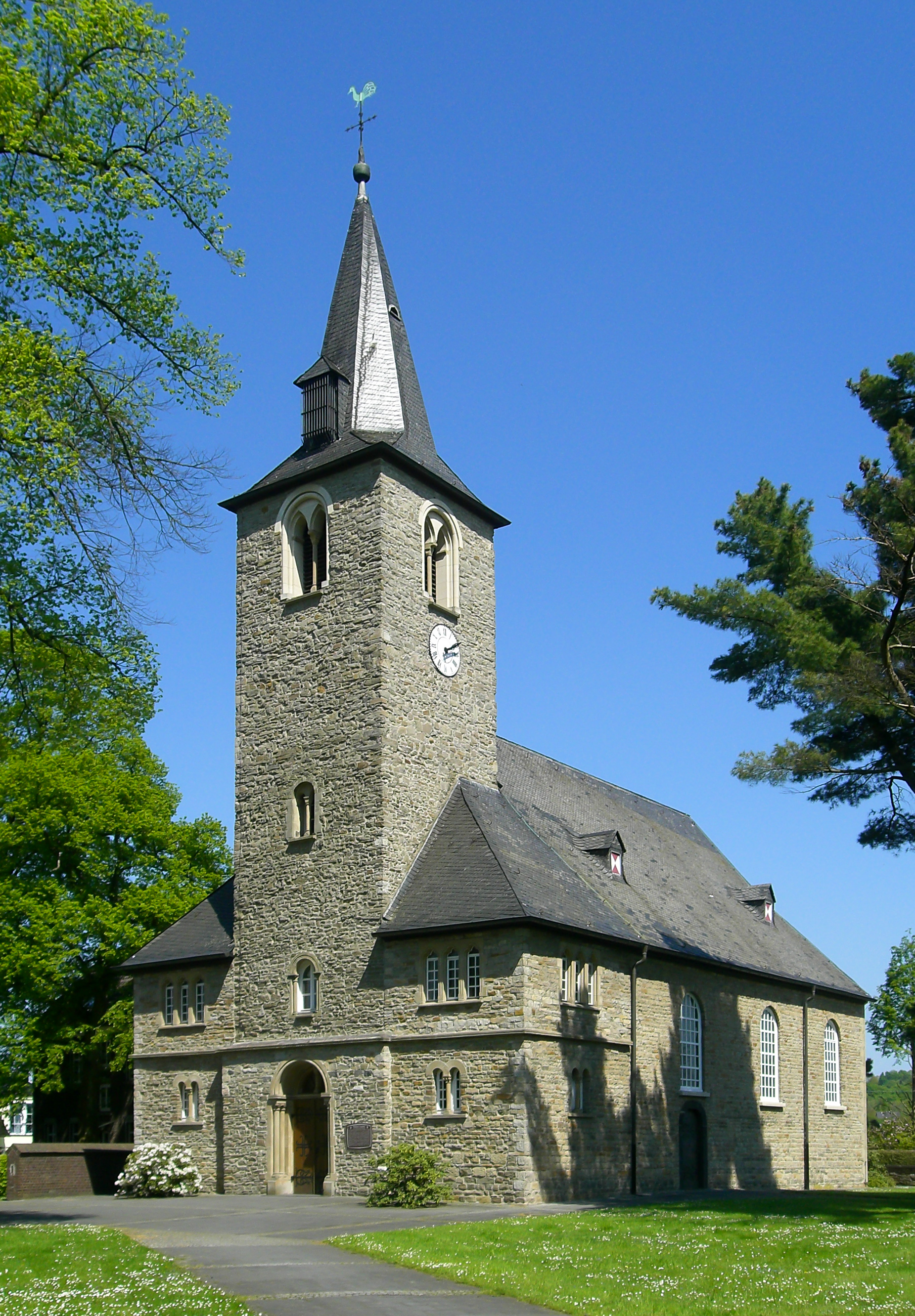 St.Laurentius church in Mintard (Mülheim an der Ruhr)